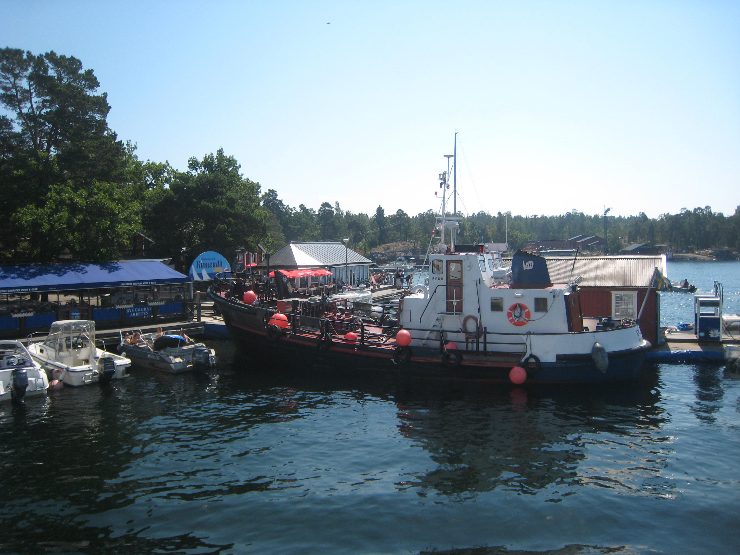 Kymmendö brygga.